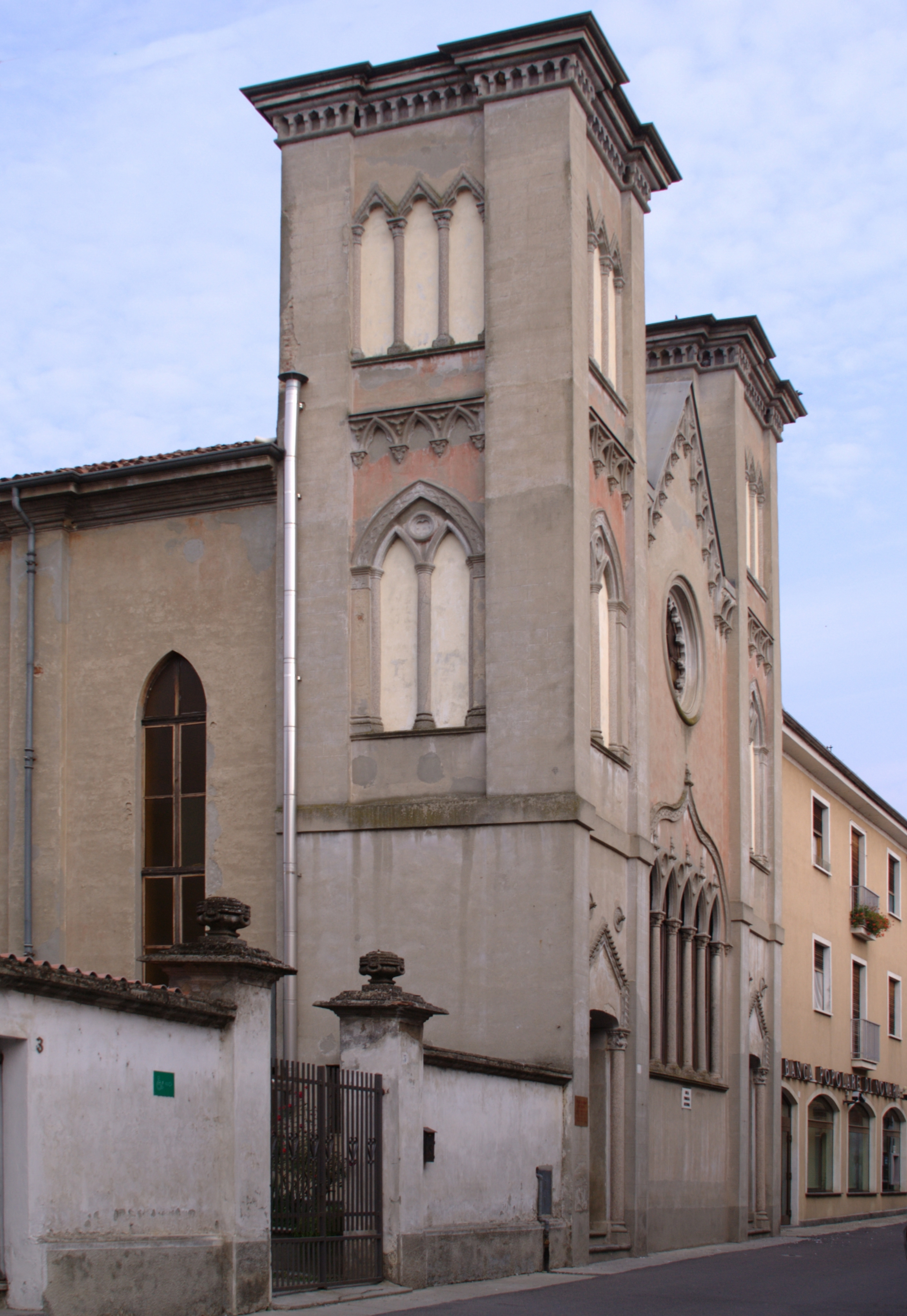 Evangelical church in the village of Bassignana